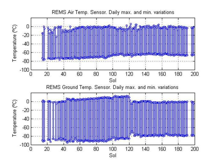 Steady Temperatures at Mars' Gale Crater This pair of graphs shows about one-fourth of a Martian year's record of temperatures (in degrees Celsius) measured by the Rover Environmental Monitoring Station (REMS) on NASA's Curiosity rover. The data are graphed by sol number (Martian day, starting with Curiosity's landing day as Sol 0), for a period from mid-August 2012 to late February 2013, corresponding to late winter through the end of spring in Mars' southern hemisphere. The upper graph plots the daily minimum and maximum of air temperature around the rover. The pattern is quite steady, with daily highs at about 32 degrees Fahrenheit (0 degrees Celsius) and lows at about minus 94 Fahrenheit (minus 70 Celsius). The lower graph plots daily minimum and maximum of ground temperature measured by REMS. A change in the pattern just after Sol 120 corresponds to Curiosity driving onto a type of ground with higher thermal inertia -- thus cooling off more slowly in the evening and warming up more slowly in the morning. The higher thermal inertia of this area was predicted from orbital infrared measurements and is likely due to greater abundance of exposed bedrock relative to soil or sand.